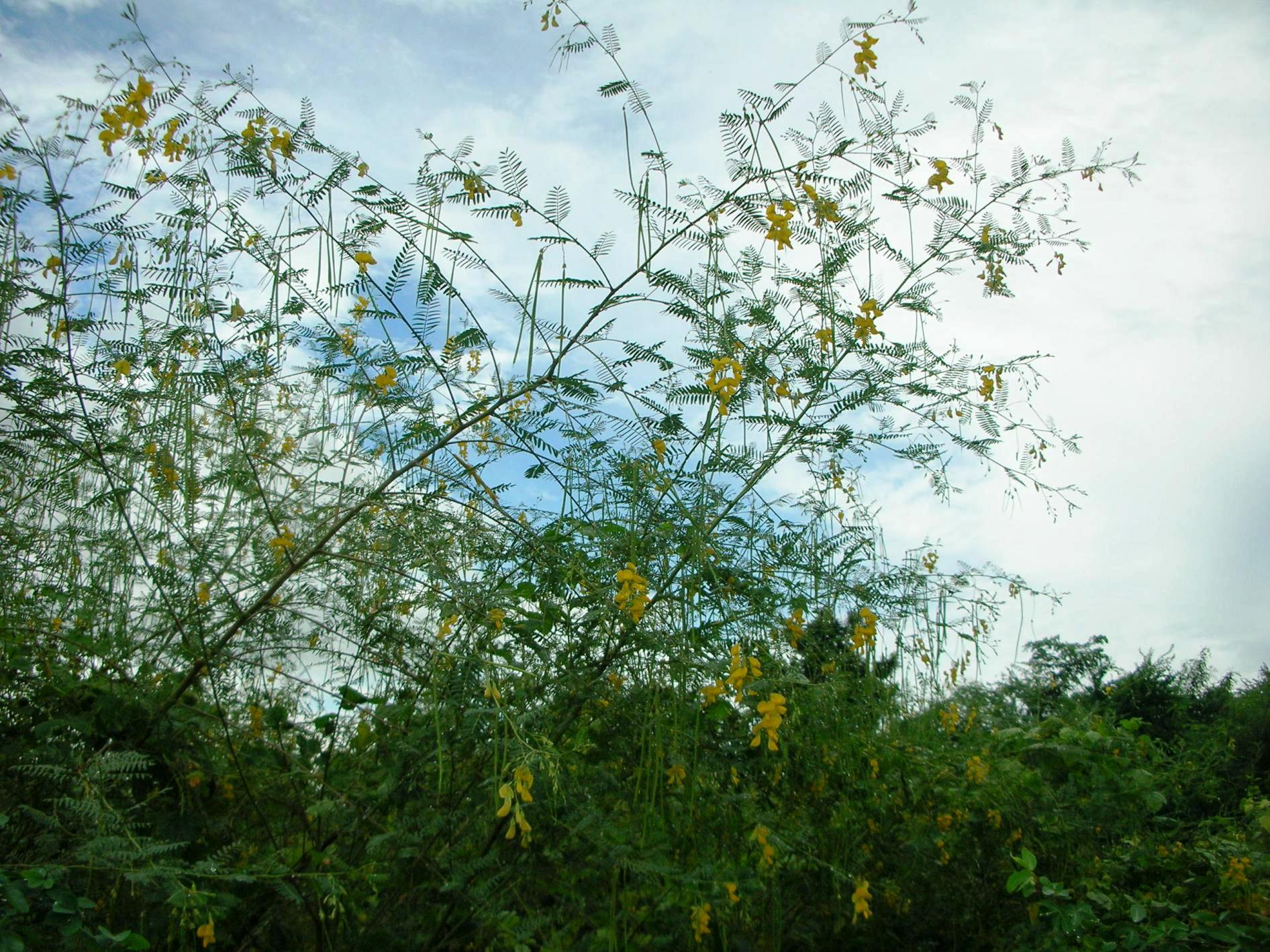 Sesbania bispinosa bush. Ratchaburi Province. Thailand